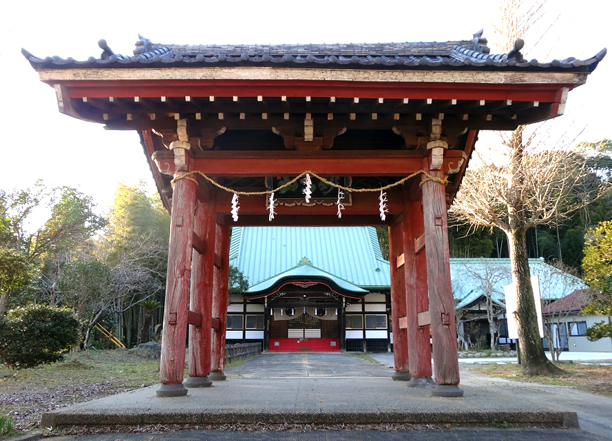 小西檀林正法寺